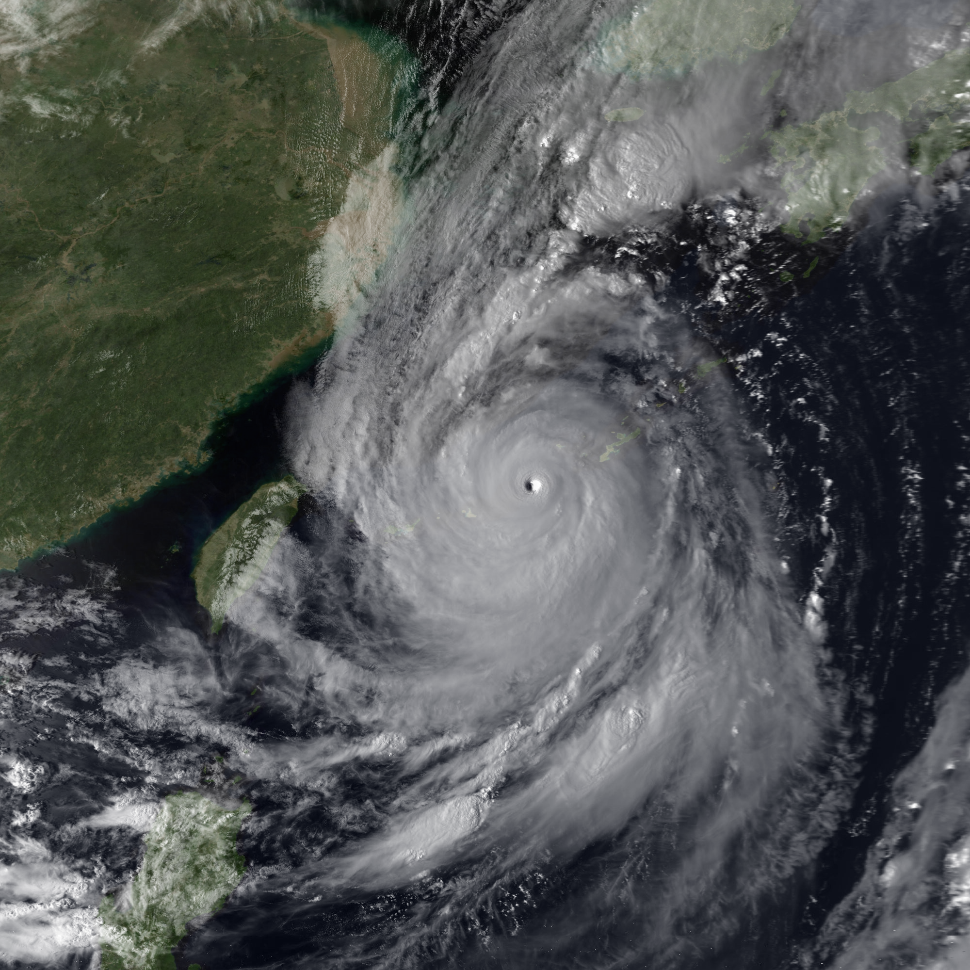 True-colored version of File:Bart 1999-09-22 0705Z.jpg